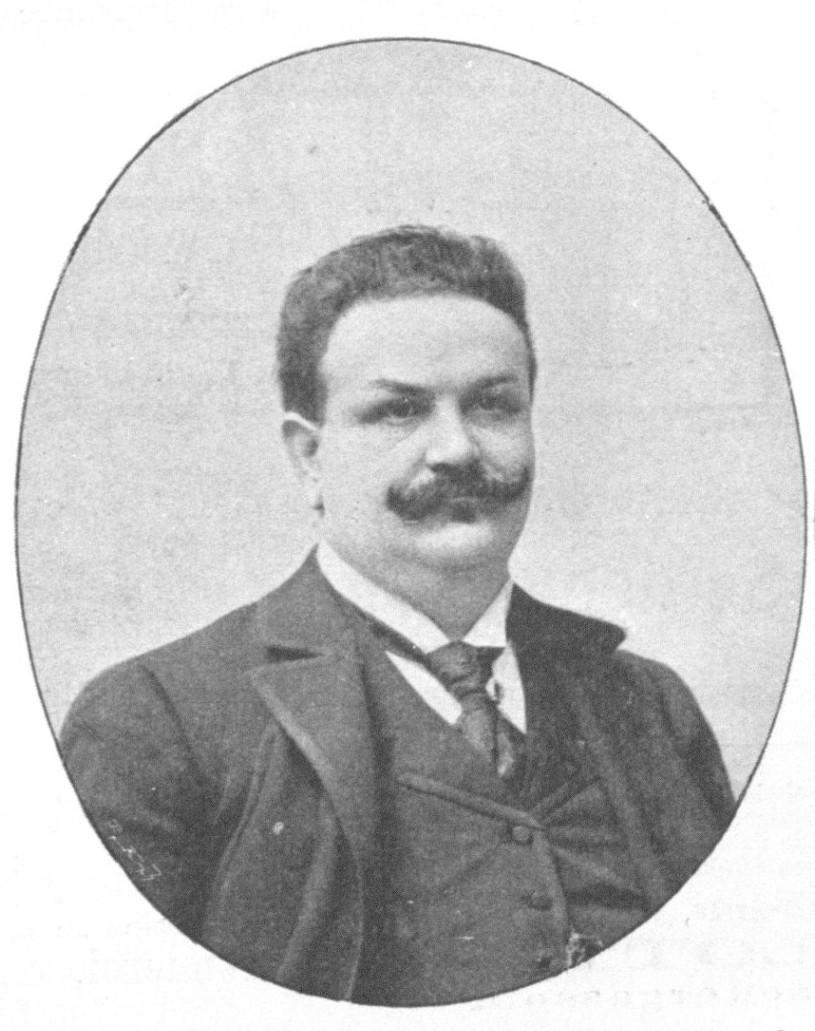 Portrait of Josef Drexler (1850-1922), Austrian architect.